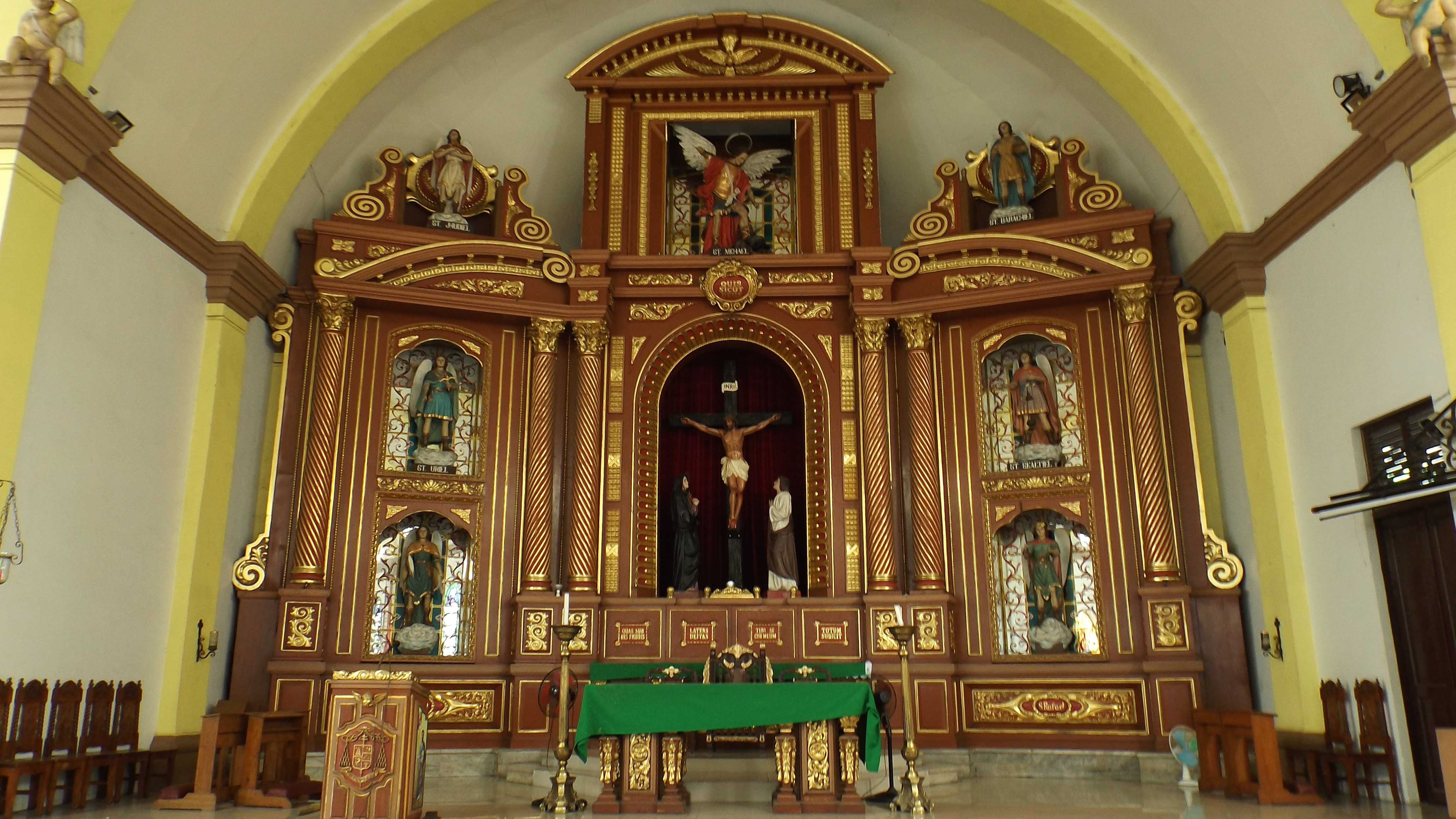 Retablo showing the statues of the seven archangels